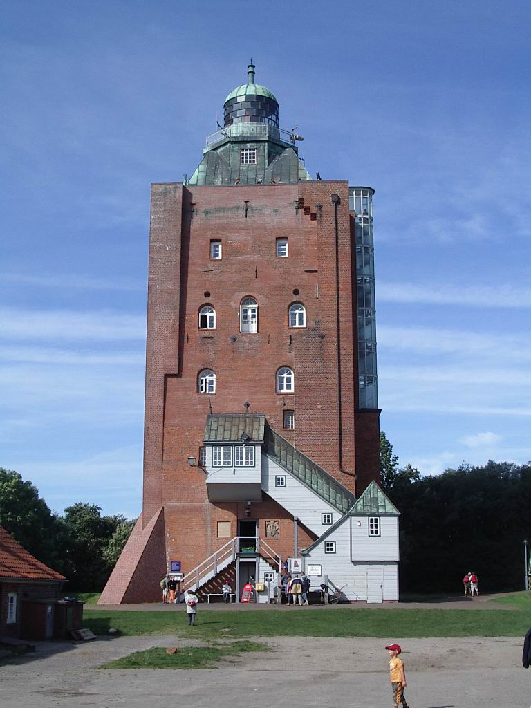 Neuwerk Island Lighthouse, Hamburg, Germany.